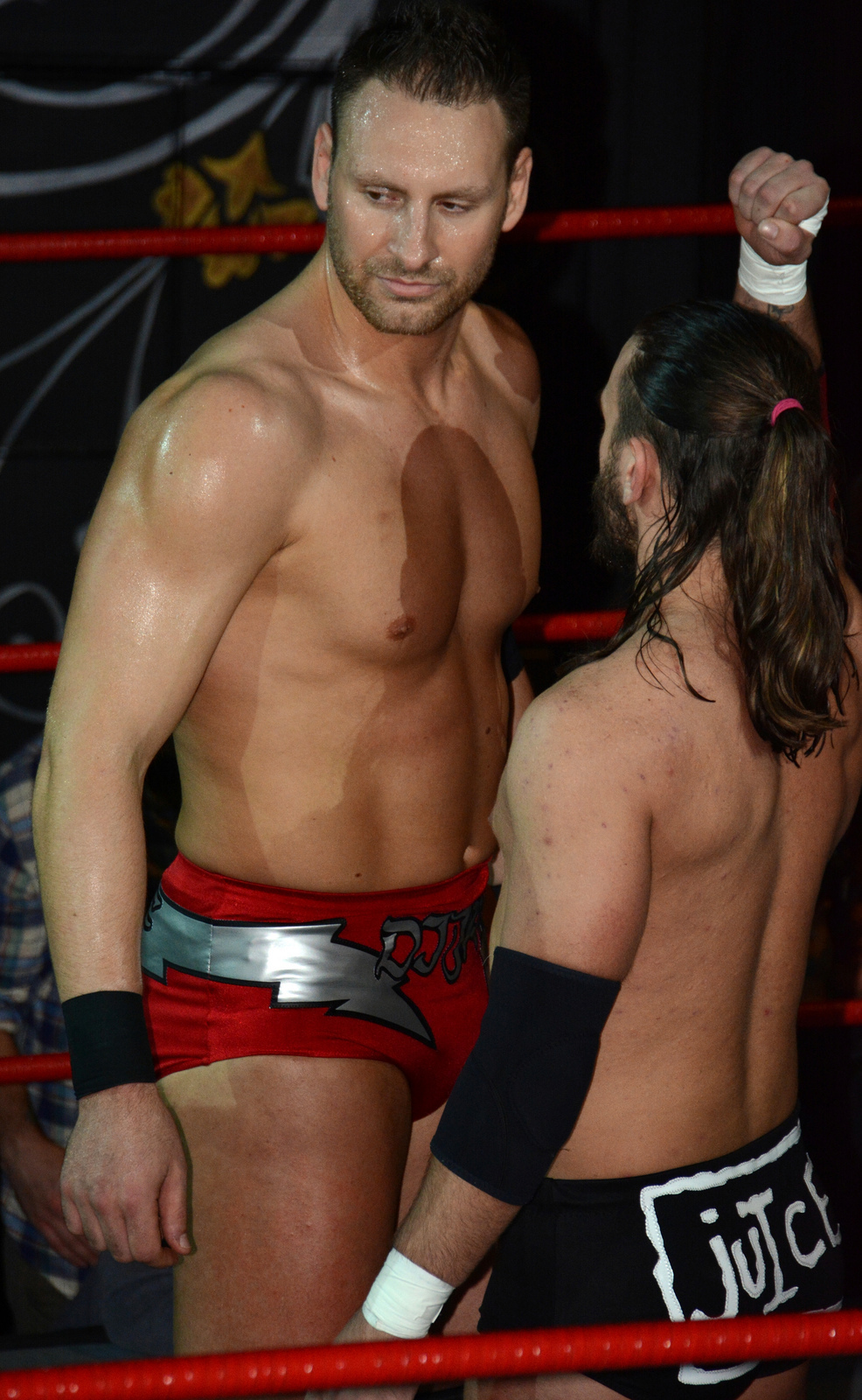 Donovan Dijak meets JT Dunn at a 2015 Rhode Island "Beyond Wrestling event.